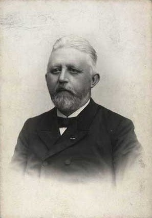 Thomas Riise Segelcke (1831-1902), Danish dairyman and professor